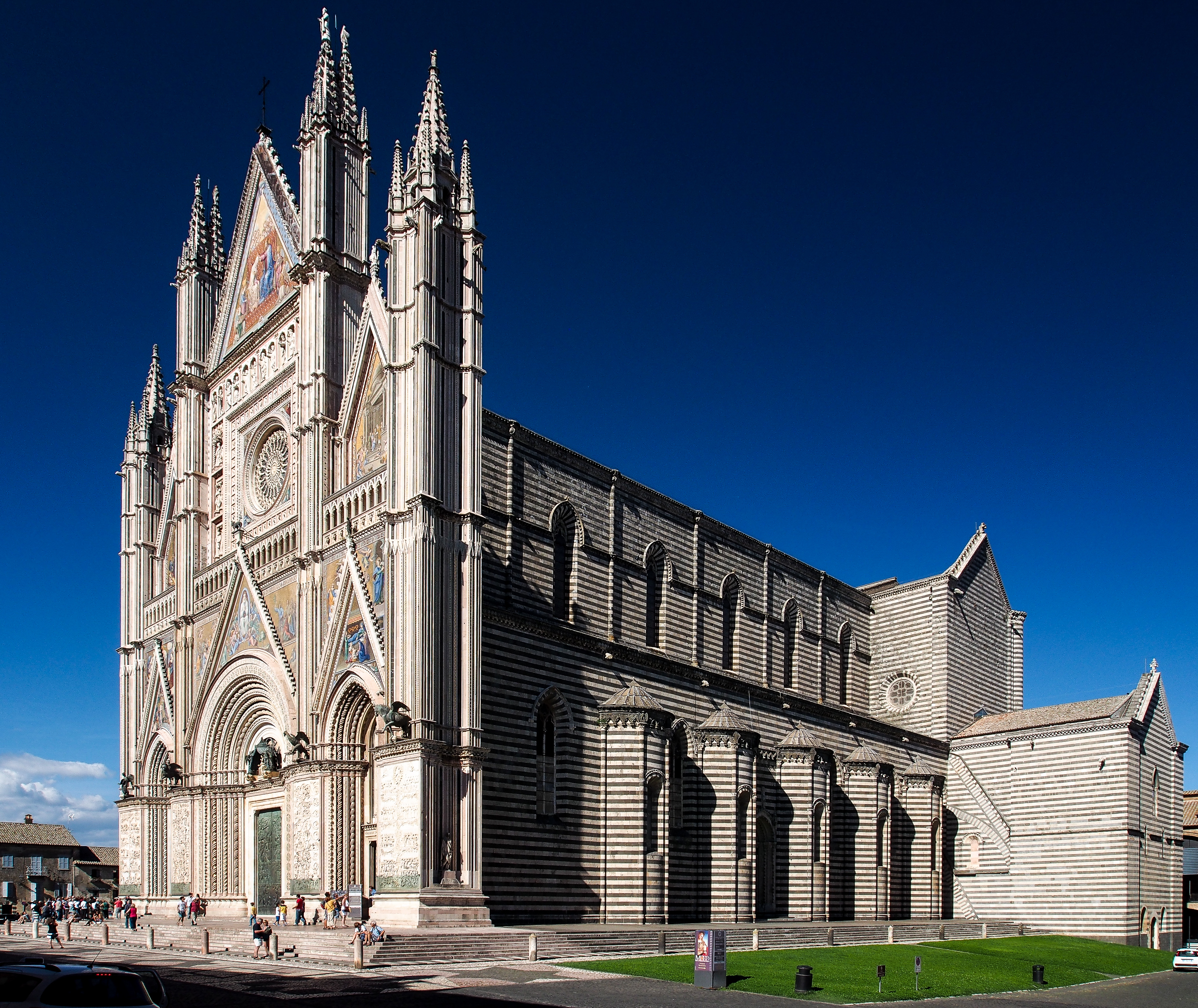 Global view of the Cathedral of Orvieto